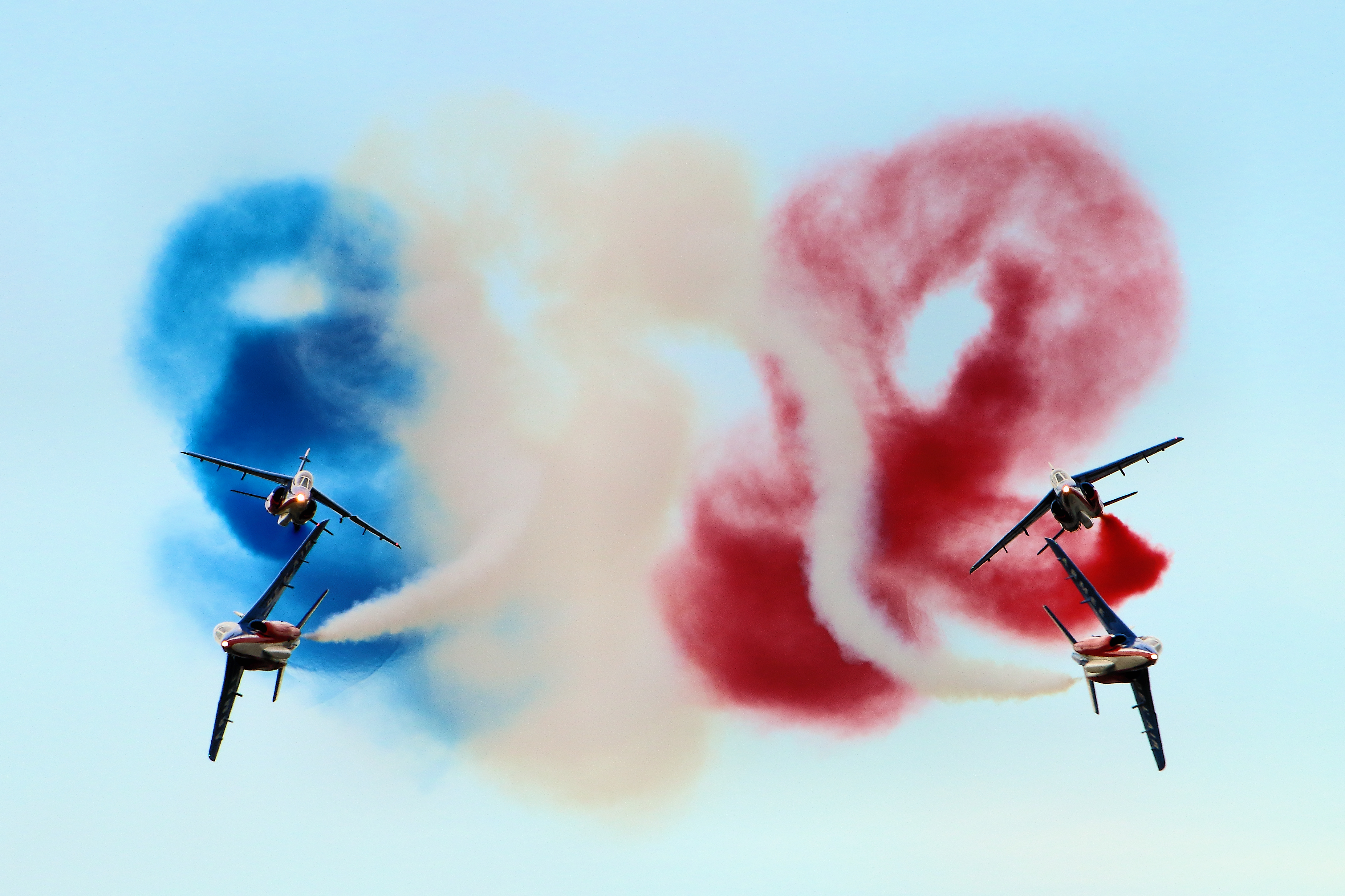 Patrouille de France - RIAT 2015